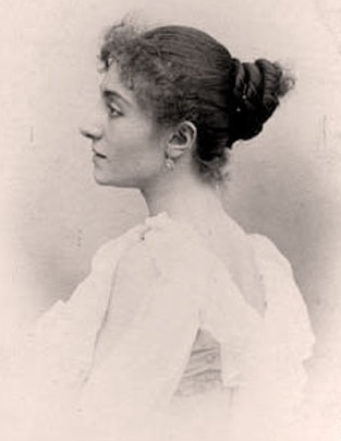 Portait of the Italian opera singer Gemma Bellincioni. This is a cropped version of File:Gemma Bellincioni.jpg